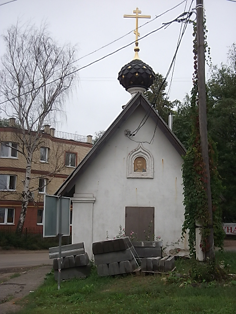 Церковь Зосимы и Савватия/ Часовня